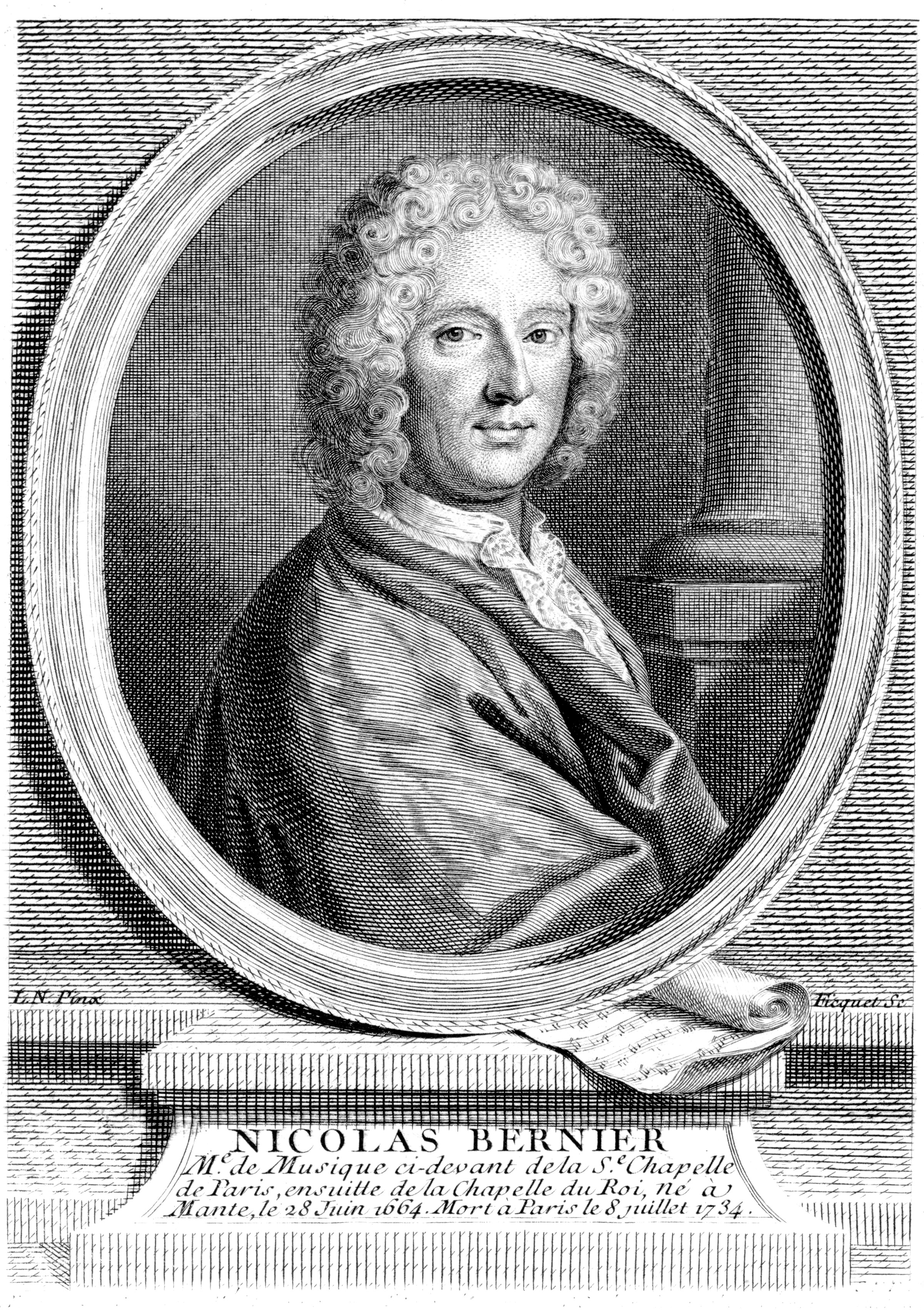 Portrait of Nicolas Bernier (c.1664-1734), French composer